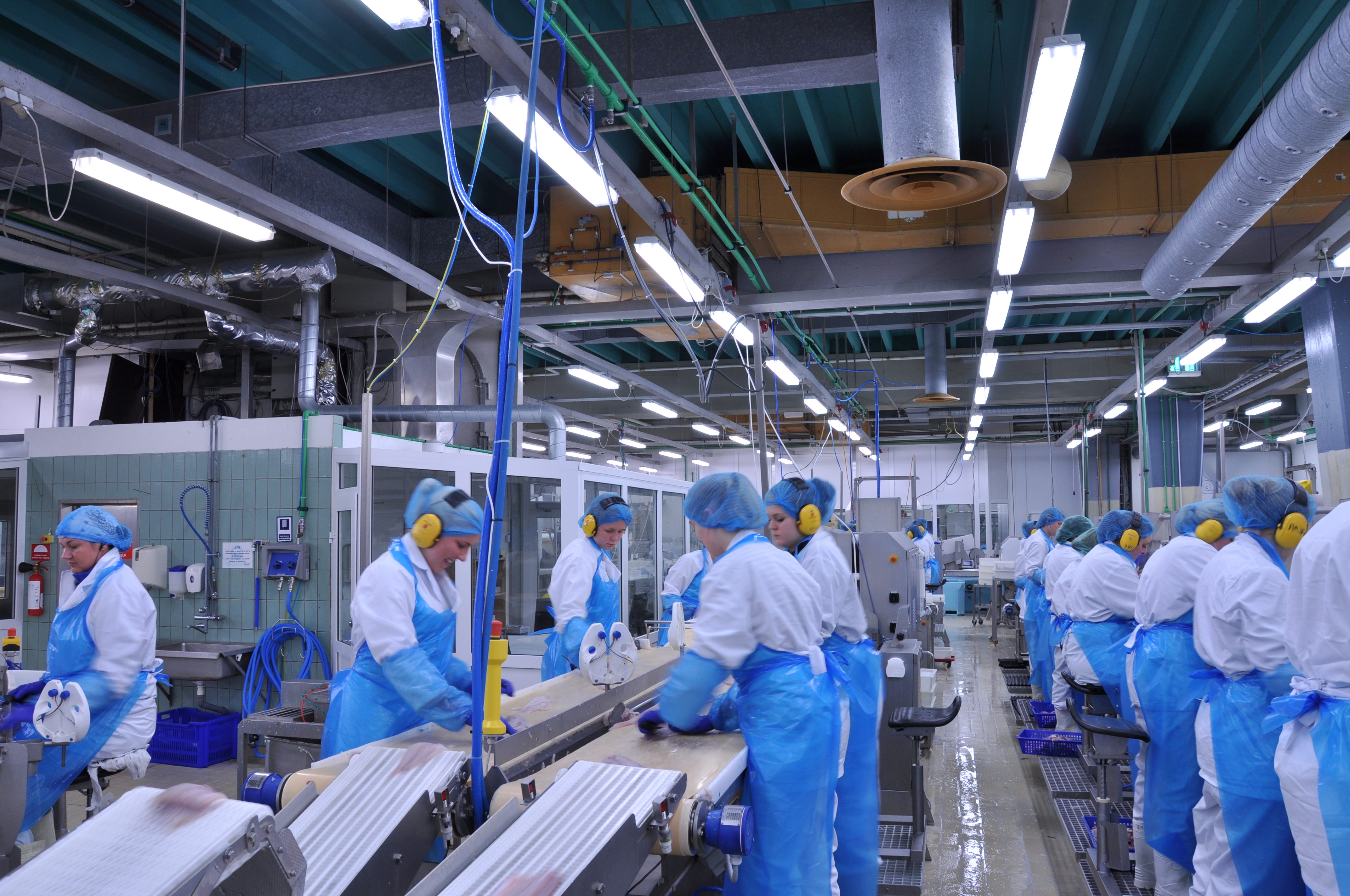 Conveyor belt fish processing in HB Grandi fish processing plant in Reykjavík, Iceland.